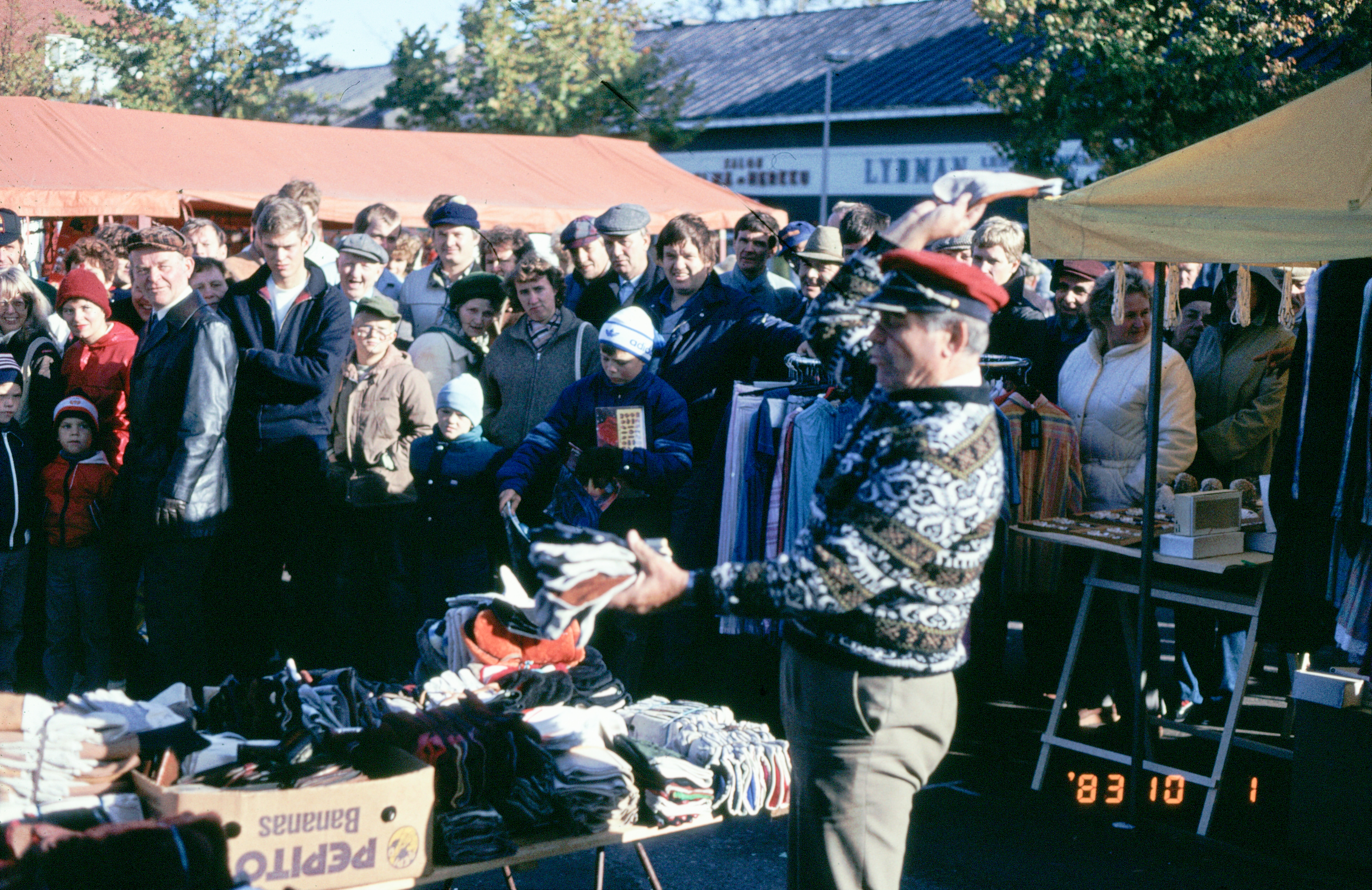 Shopman Antti Kuronen in Salo Markkinat selling gloves year 1983